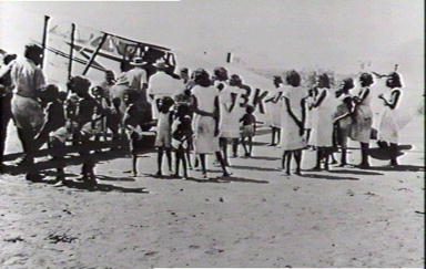 A 1948 Alice Springs, Australia photo of a Connellan Airways place servicing the Roper River Mission. Aboriginal children are gathered around the plane. Details: FILE 09\ 09713 TITLE Connellan Airways DH 89 VH BKR DESCRIPT Connellan Airways DH 89 VH BKR, on ground at Roper River Mission - Aboriginals on ground near plane. DATE : 07 : 1948 PHOTONO PH0122/0093 CREATOR COLLECTN Cyril McGorey RIGHTS Northern Territory Library and Information Service LOCATION Roper River Mission SUBJECTS aviation aeronautics Anglican missions Aboriginals